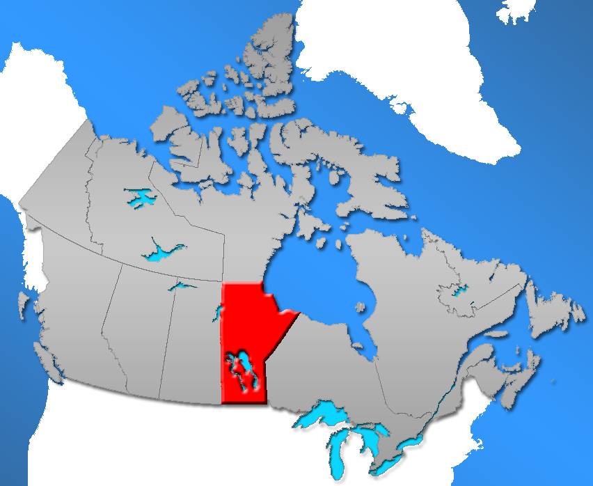 Province of Manitoba in Canada